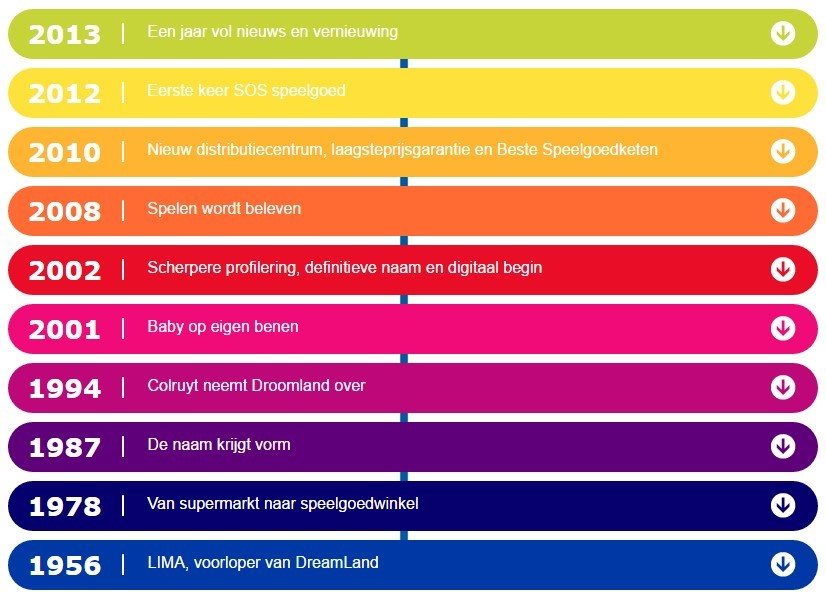 geschiedenis.